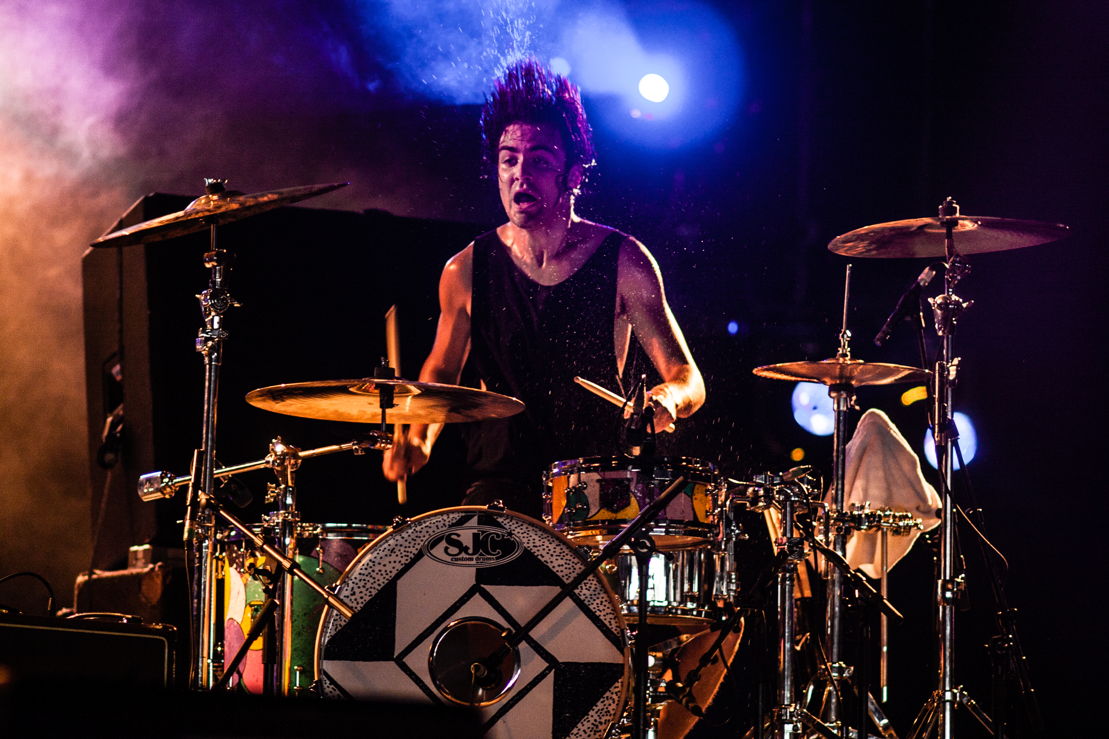 Weinberg performing with Against Me! in 2012 Original caption: Follow me on facebook Twitter : @didyPhotography All the photographies I've made are now under CC0 (Creative Commons Zero) CC0 - learn more To the extent possible under law, Eddy BERTHIER has waived all copyright and related or neighboring rights to Against Me! @ Dour 2012. This work is published from: France.